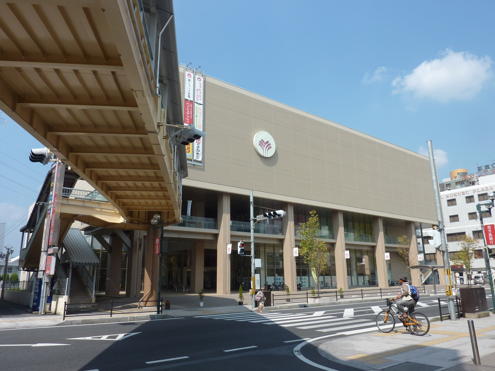 Kokubu Yamakataya Department Store, is in Kirishima City, Kagoshima Prefecture, Japan.